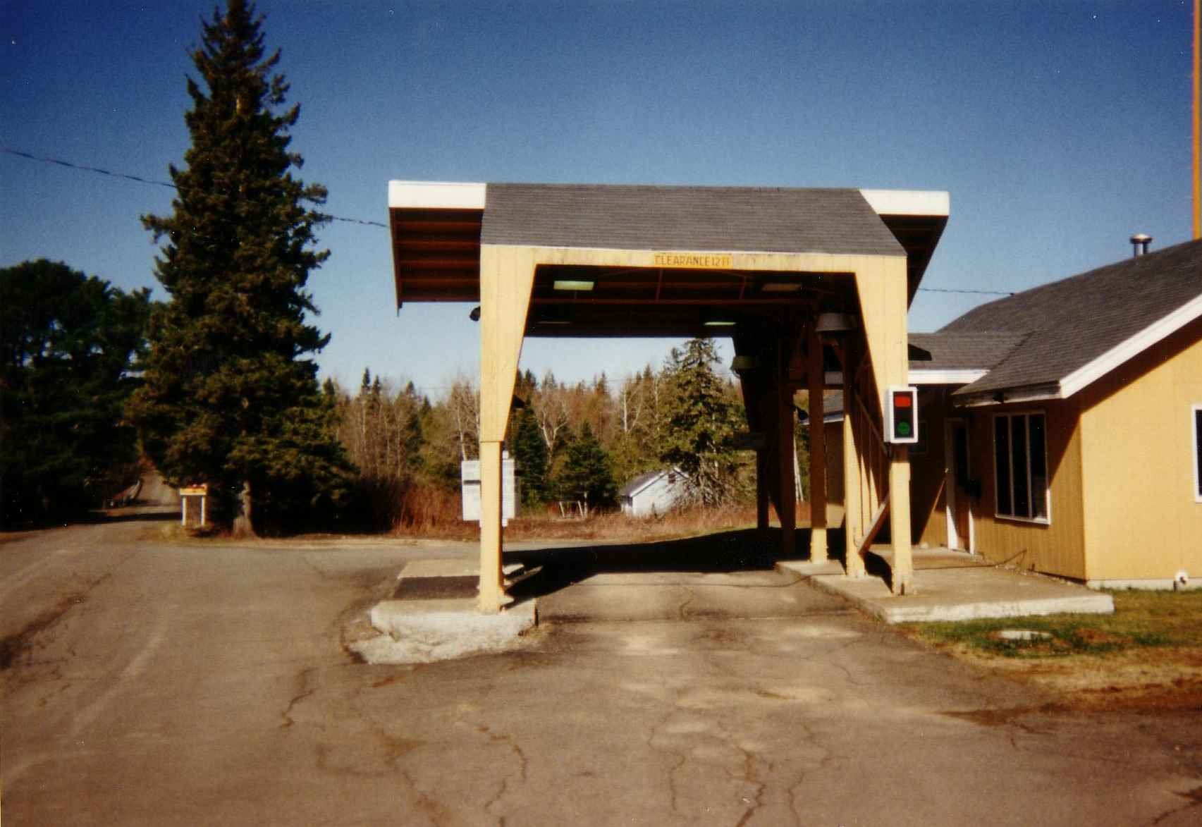 Monticello, ME port of entry